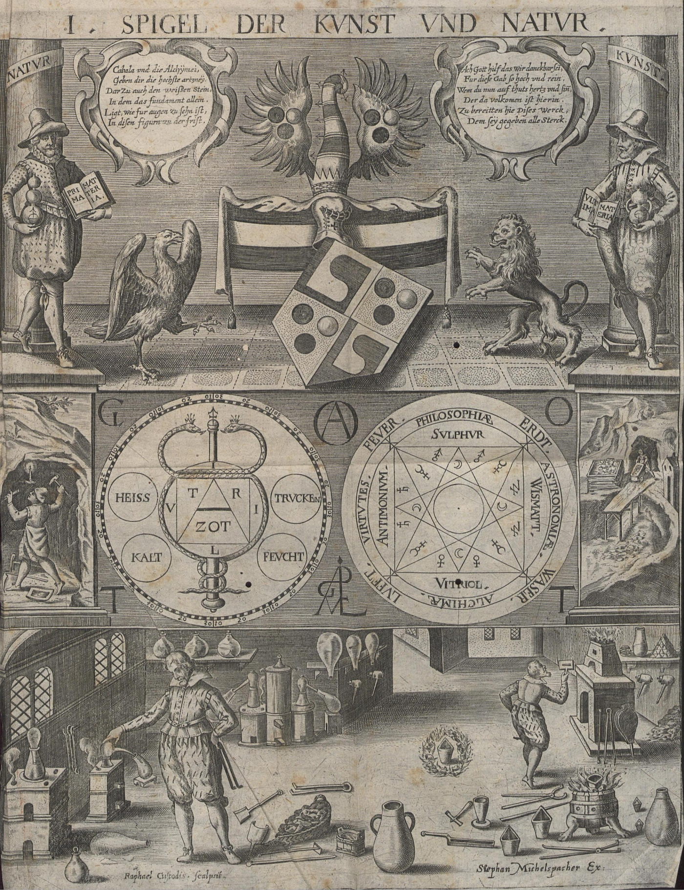 Cabala, Speculum Artis Et Naturae In Alchymia by Stephan Michelspacher (1654) — "1. SPIGEL DER KVNST VND NATVR"